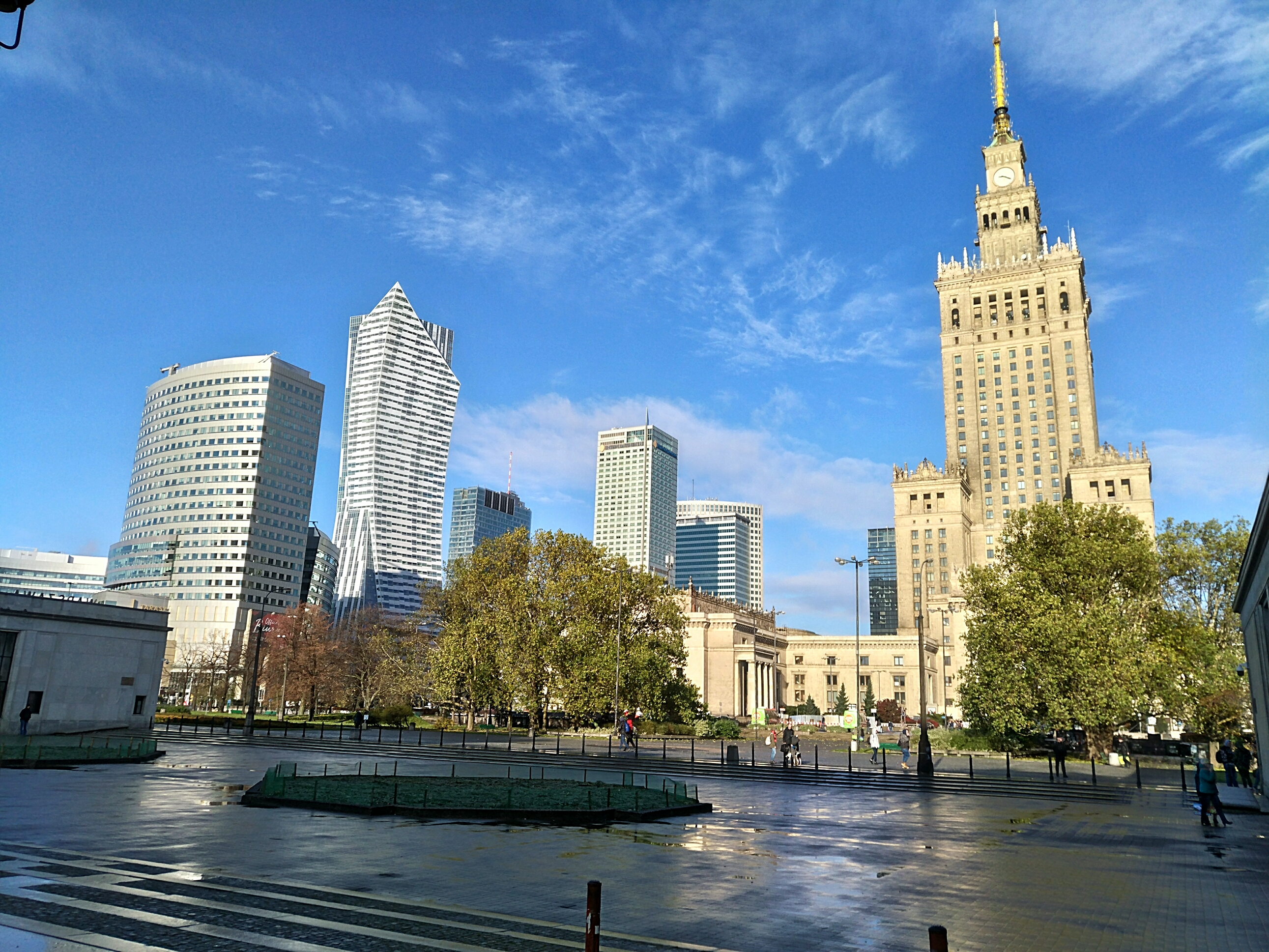 PKIN in Warsaw cityscape